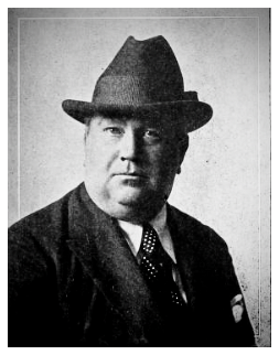 Motion Picture News Studio Directory